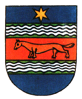 CoA of Slavonia